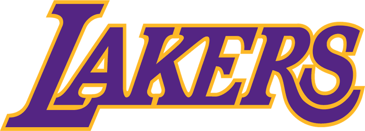 Wordmarkof the Los Angeles Lakers NBA team